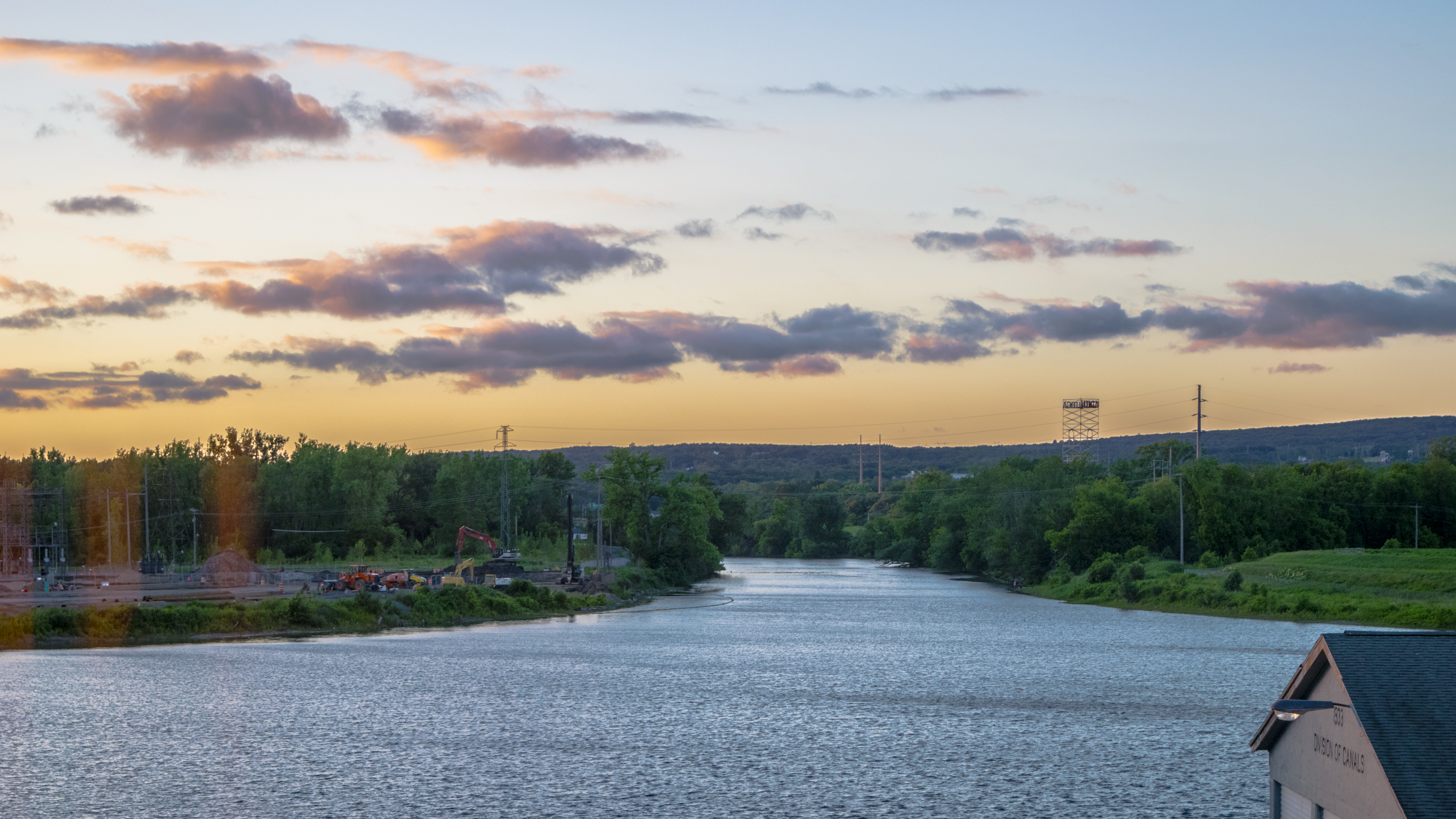 Utica Harbor Overlook